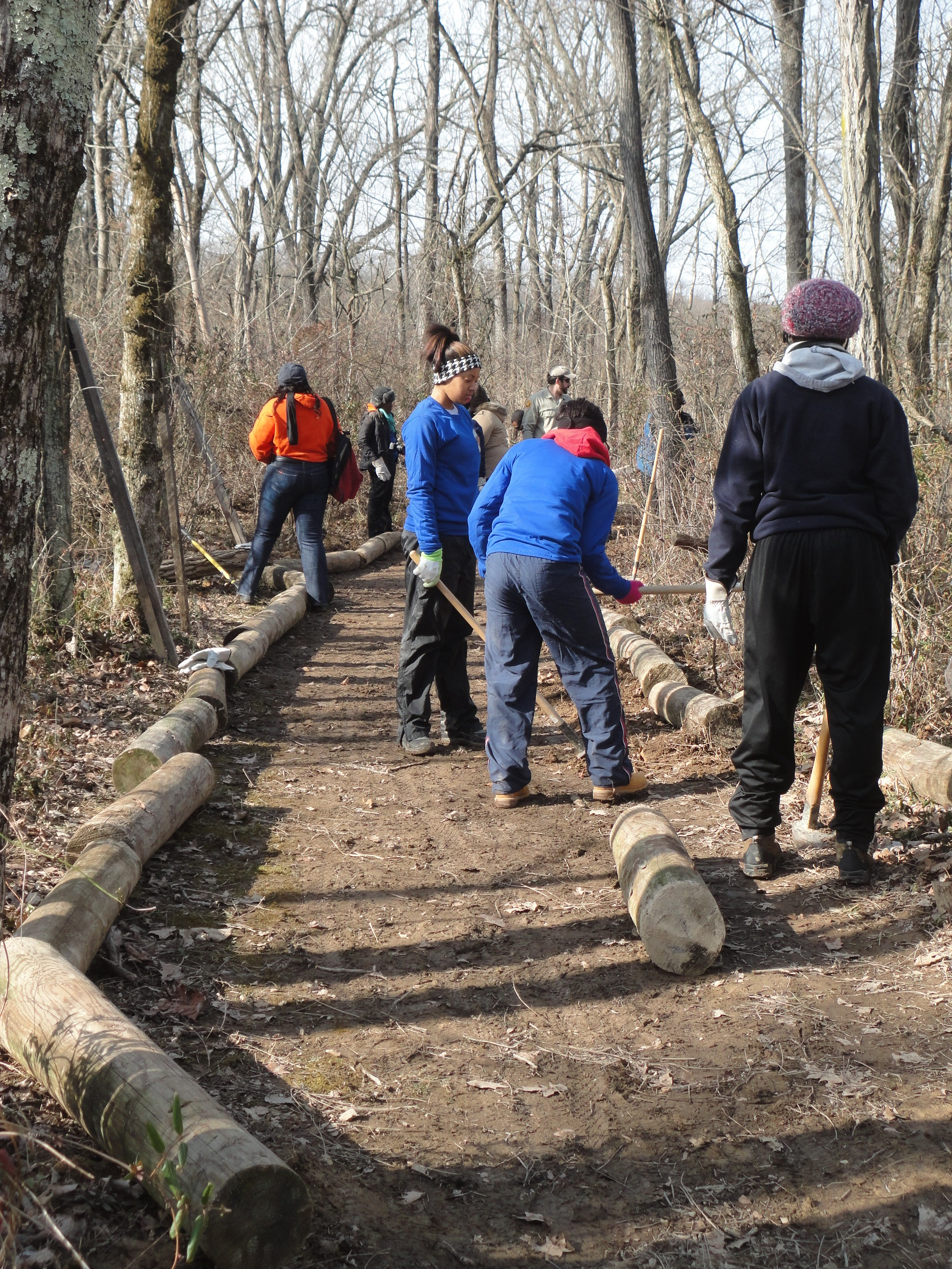 Alternative Spring Break 2012 JL used in blog JL uploaded